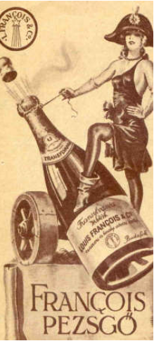 François Champagne factory adversiting note